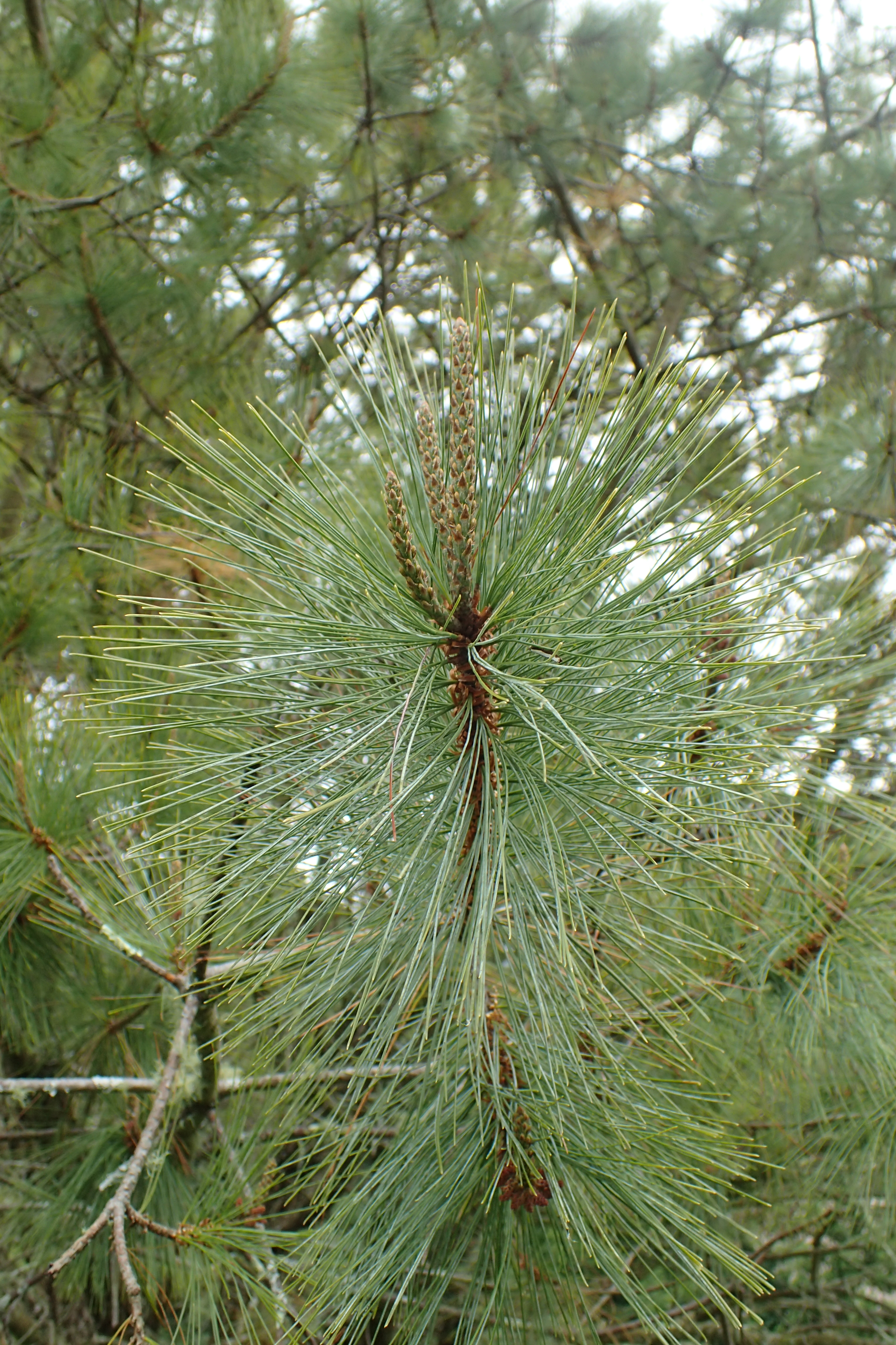 Pinus maximartinezii in Hackfalls Arboretum, Hawkes's Bay (NZ)